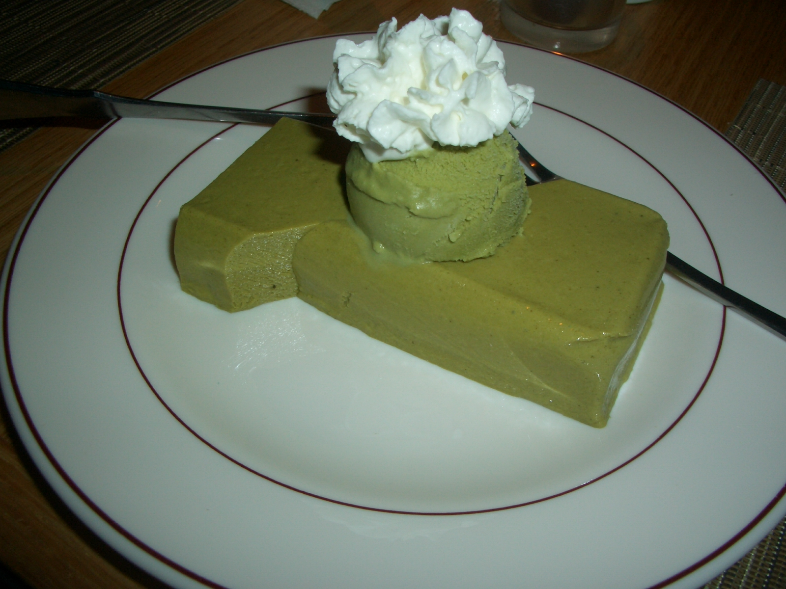 Green tea-flavored cheesecake, served with green tea ice cream. Green Tea Cheesecake.